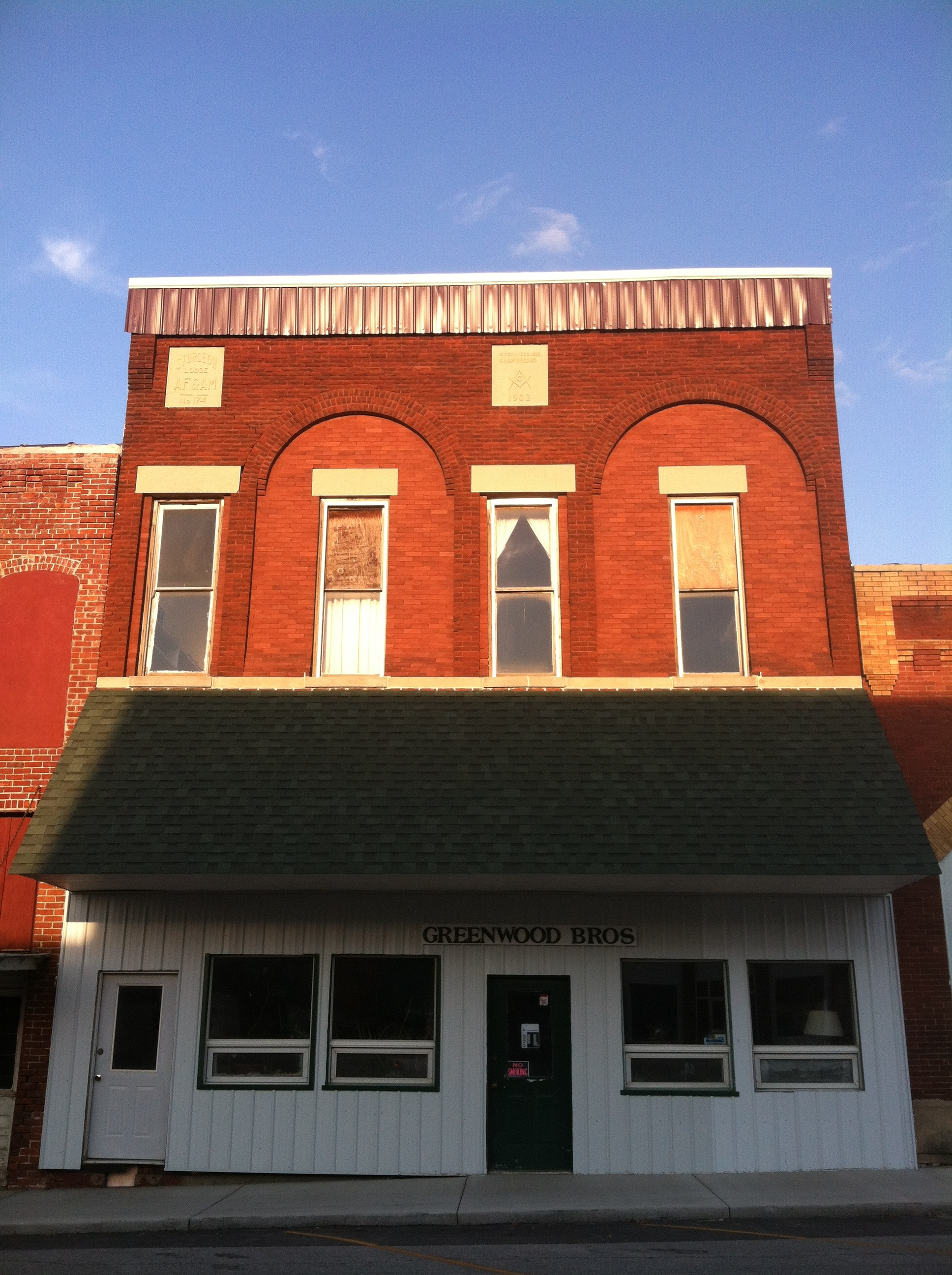 The Sturgeon, Missouri masonic lodge in August 2013.